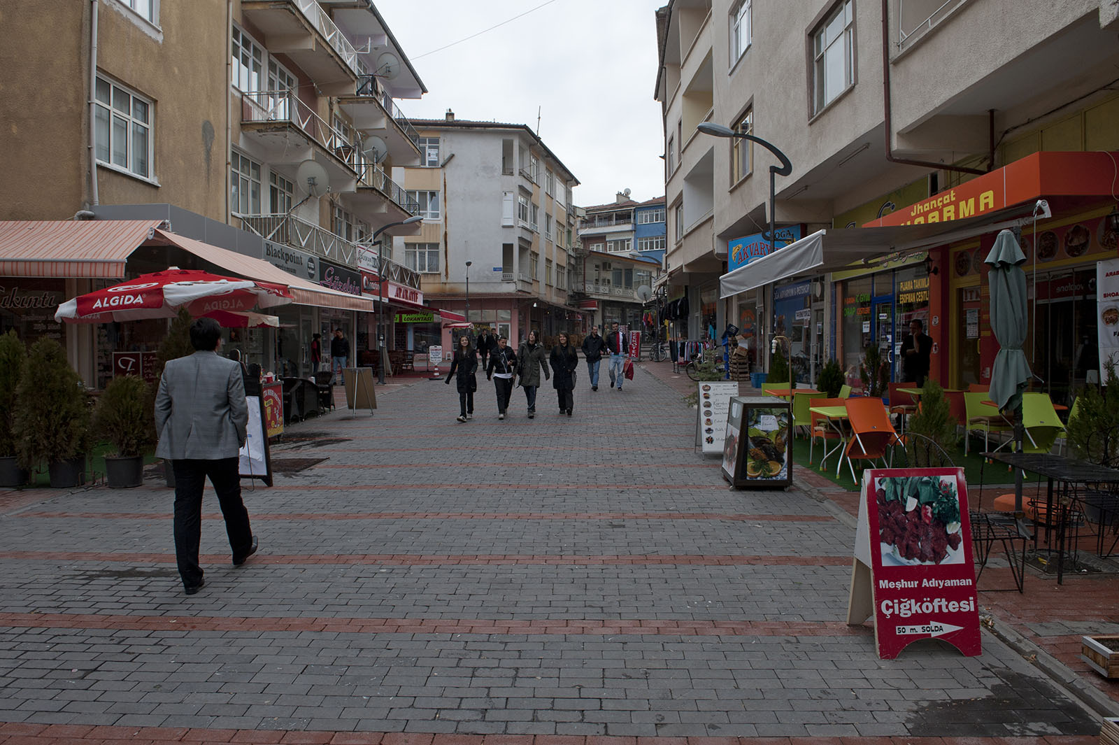 Karaman Street view on an overcast day.